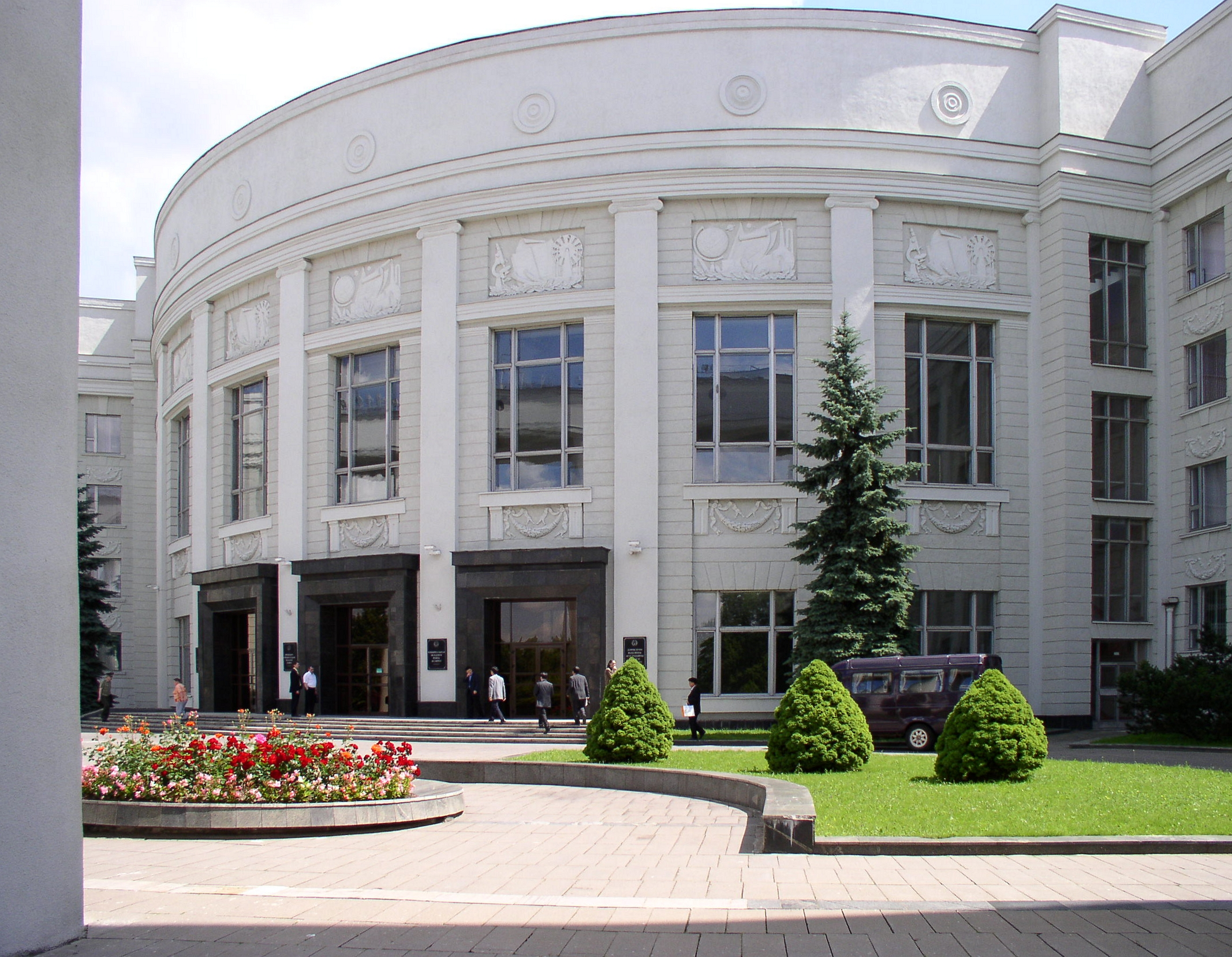 Academy of Sciences of Belarus, Minsk, Belarus.